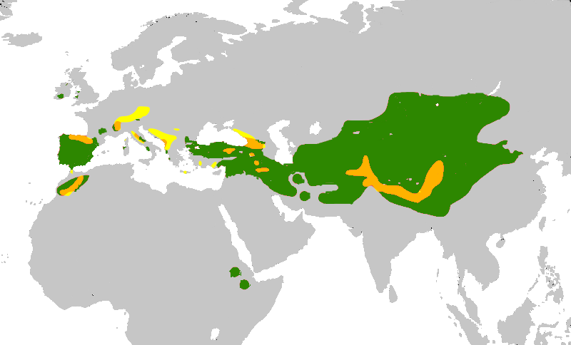 Range map for the choughs Green: Red-billed Chough (Pyrrhocorax pyrrhocorax) Yellow: Alpine Chough (Pyrrhocorax graculus) Orange: Both